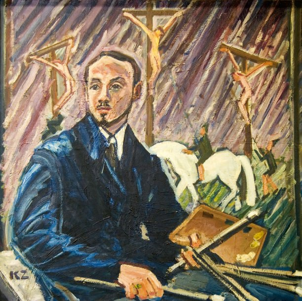 Self-portrait